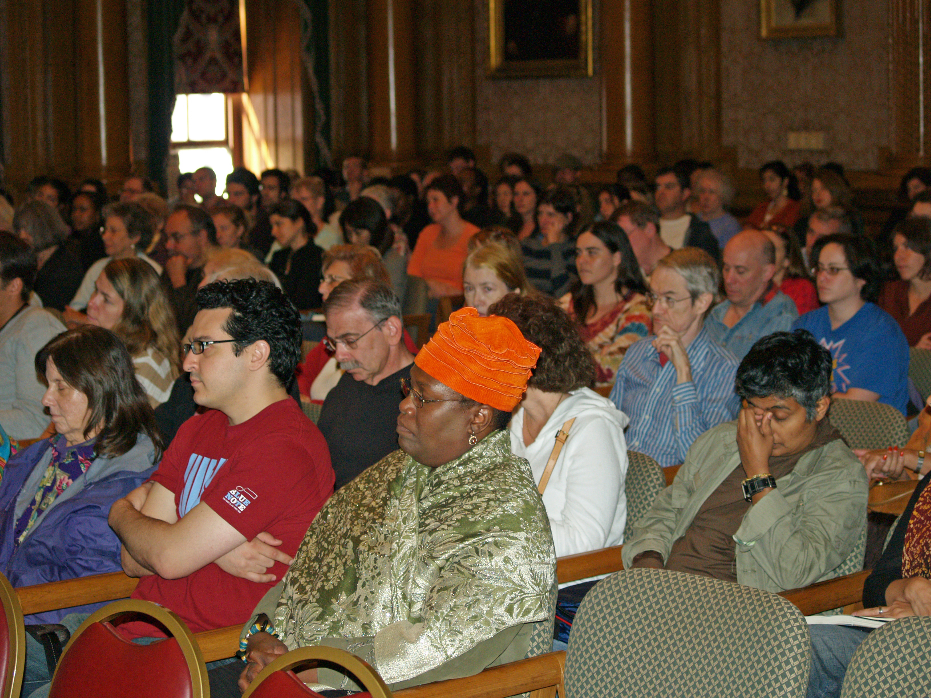 Brooklyn Book Festival crowd